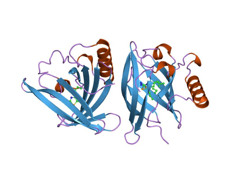 Cartoon representation of the molecular structure of protein registered with 1dzj code.